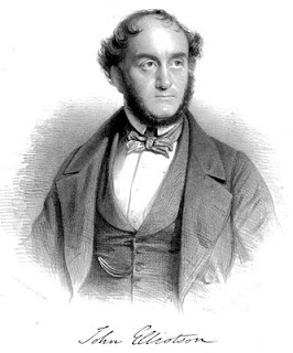 An engraving, taken from life, of John Elliotson (1791-1868), M.D. (Edinburgh, 1810), M.R.C.P. (London, 1810), M.B. (Oxford, 1816), M.D. (Oxford, 1821), F.R.C.P. (London, 1822), F.R.S. (1829), professor of the principles and practice of medicine at University College London (1832), and senior physician to University College Hospital (1834).